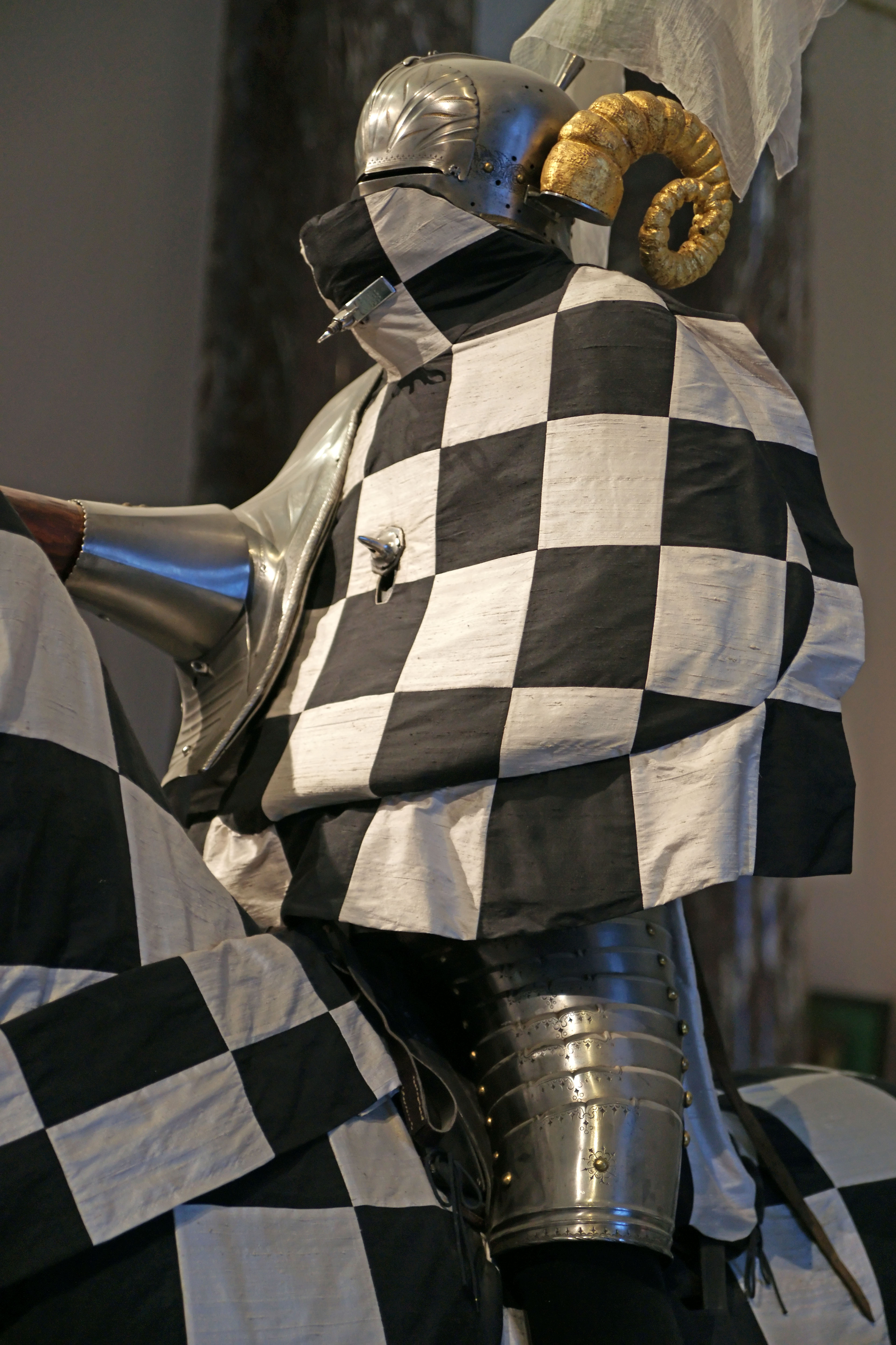 Racing armour of Emperor Maximilian I, around 1515